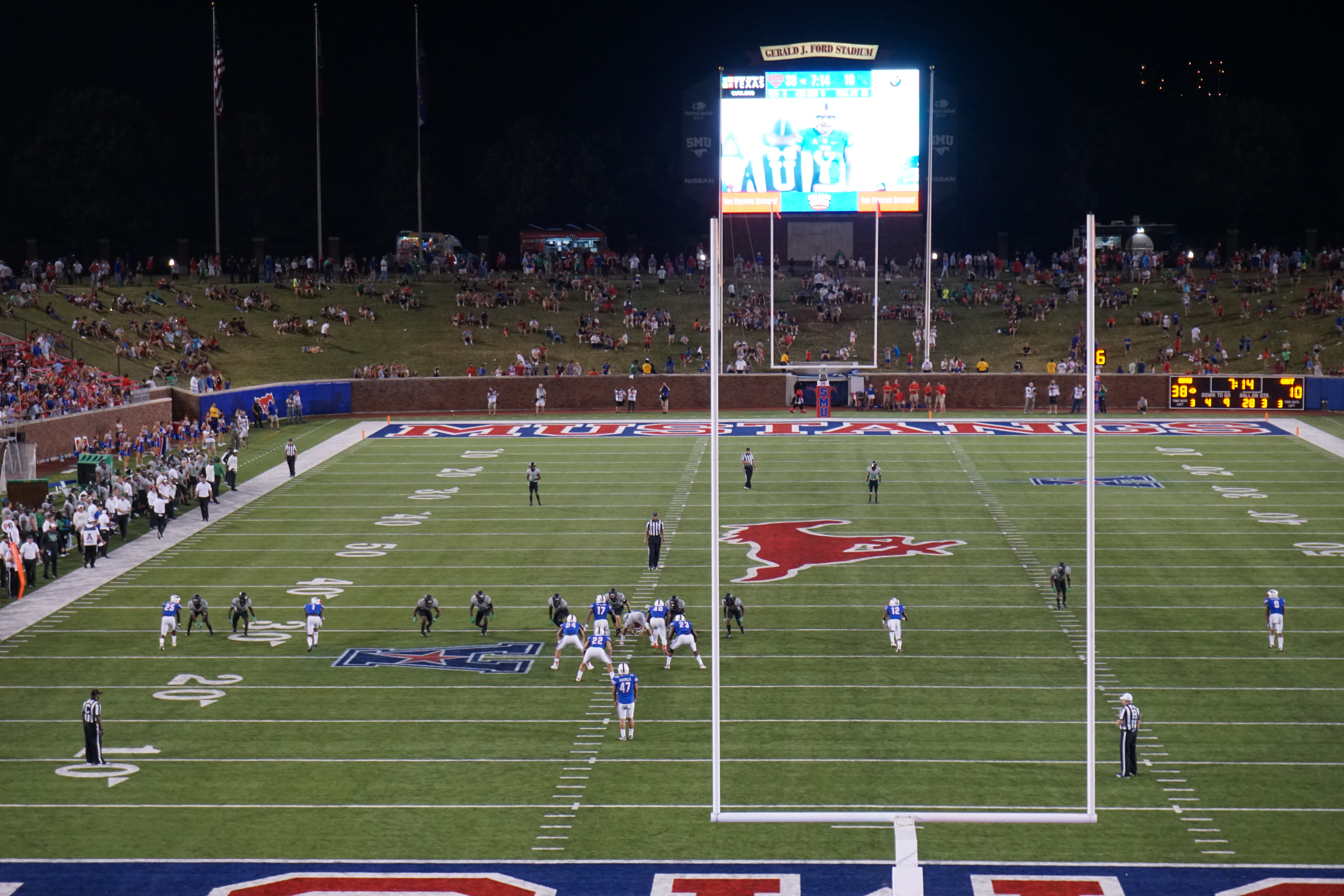 Southern Methodist punting during the North Texas Mean Green vs. Southern Methodist Mustangs football game at Gerald J. Ford Stadium in University Park, Texas (United States). Southern Methodist won 54–32.